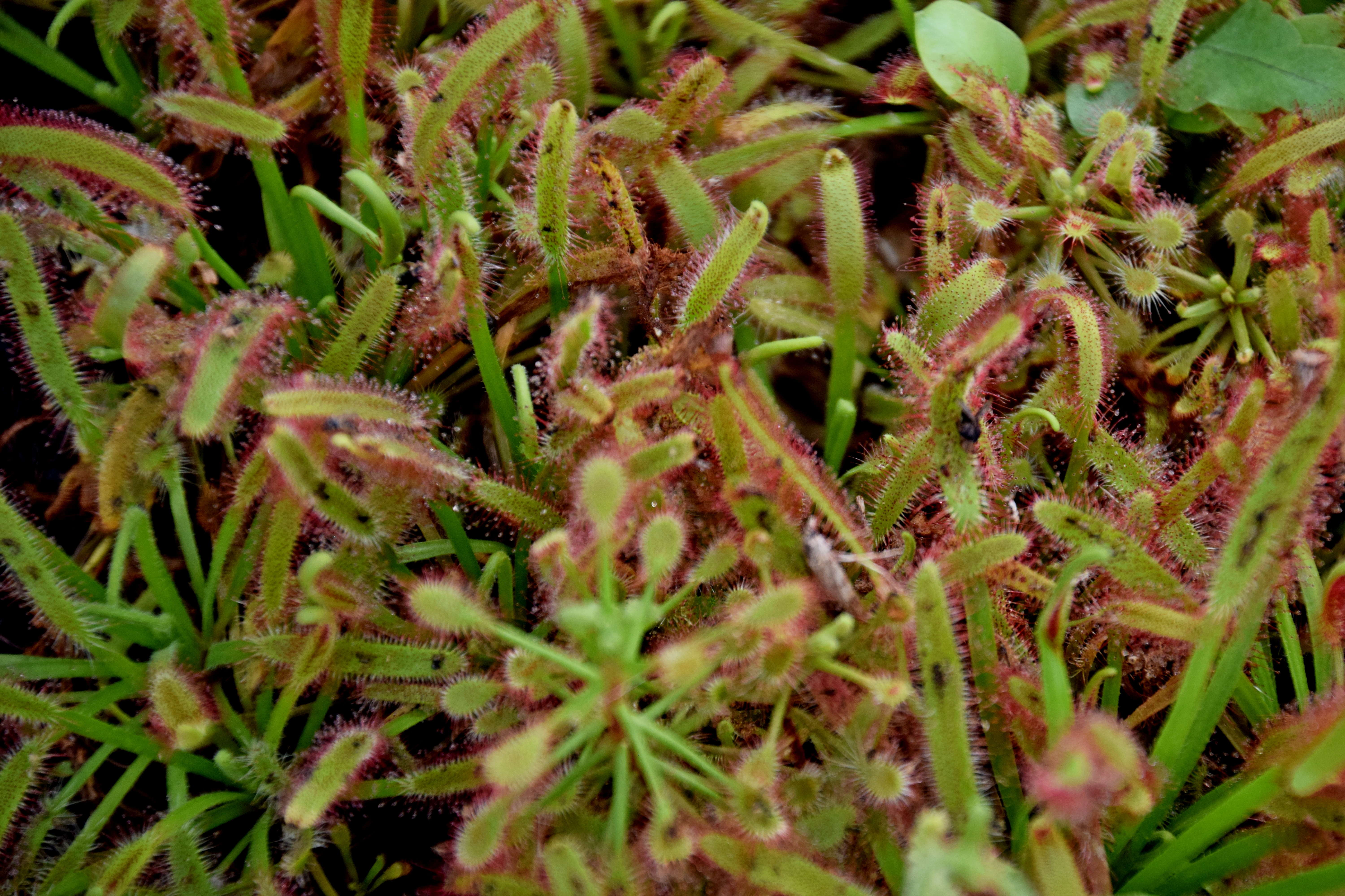 Drosera madagascariensis in Jardin des Plantes de Toulouse